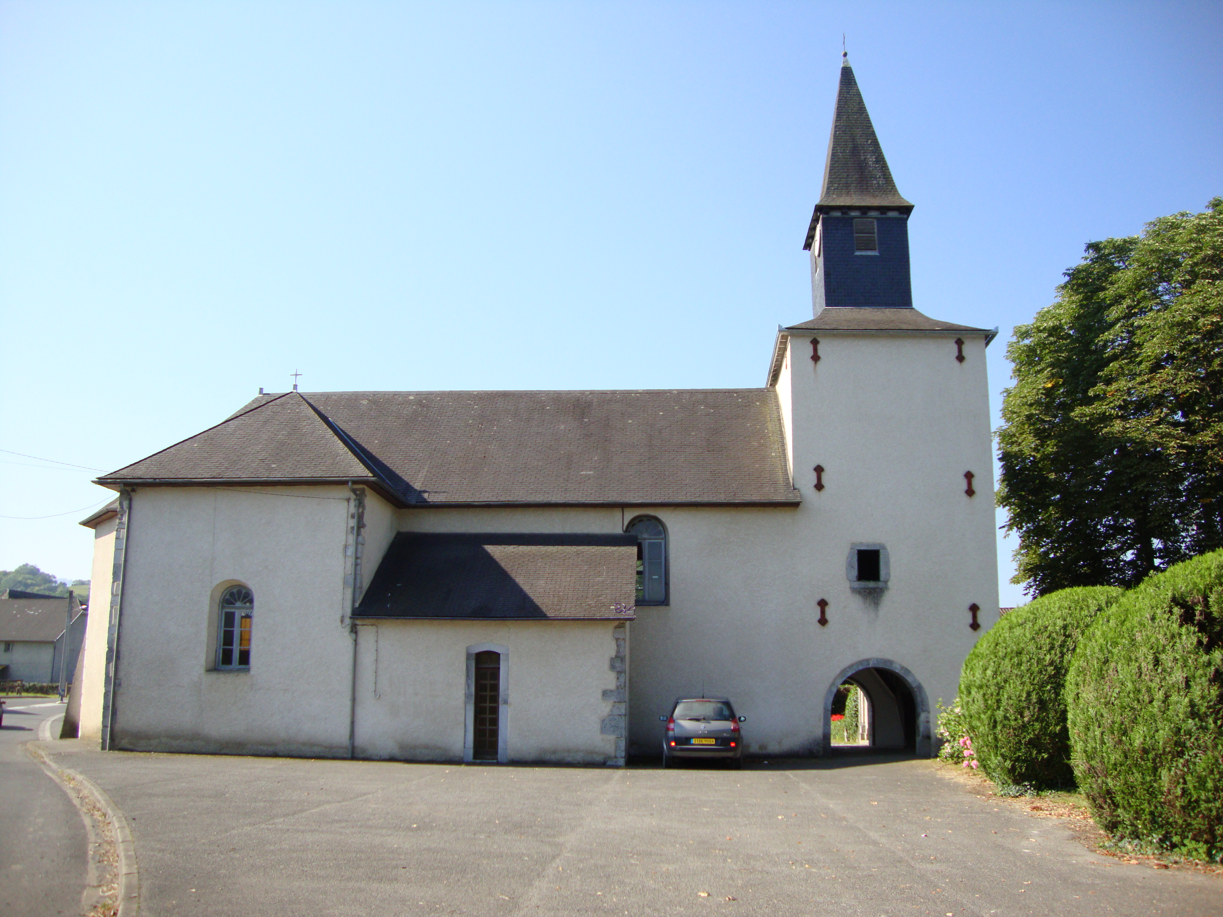 Troisvilles (Pyr-Atl, Fr) church